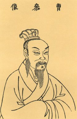 a portrait of Cao Shen from sancai tuhui Cao Shen was second chancellor of the early western han dynasty